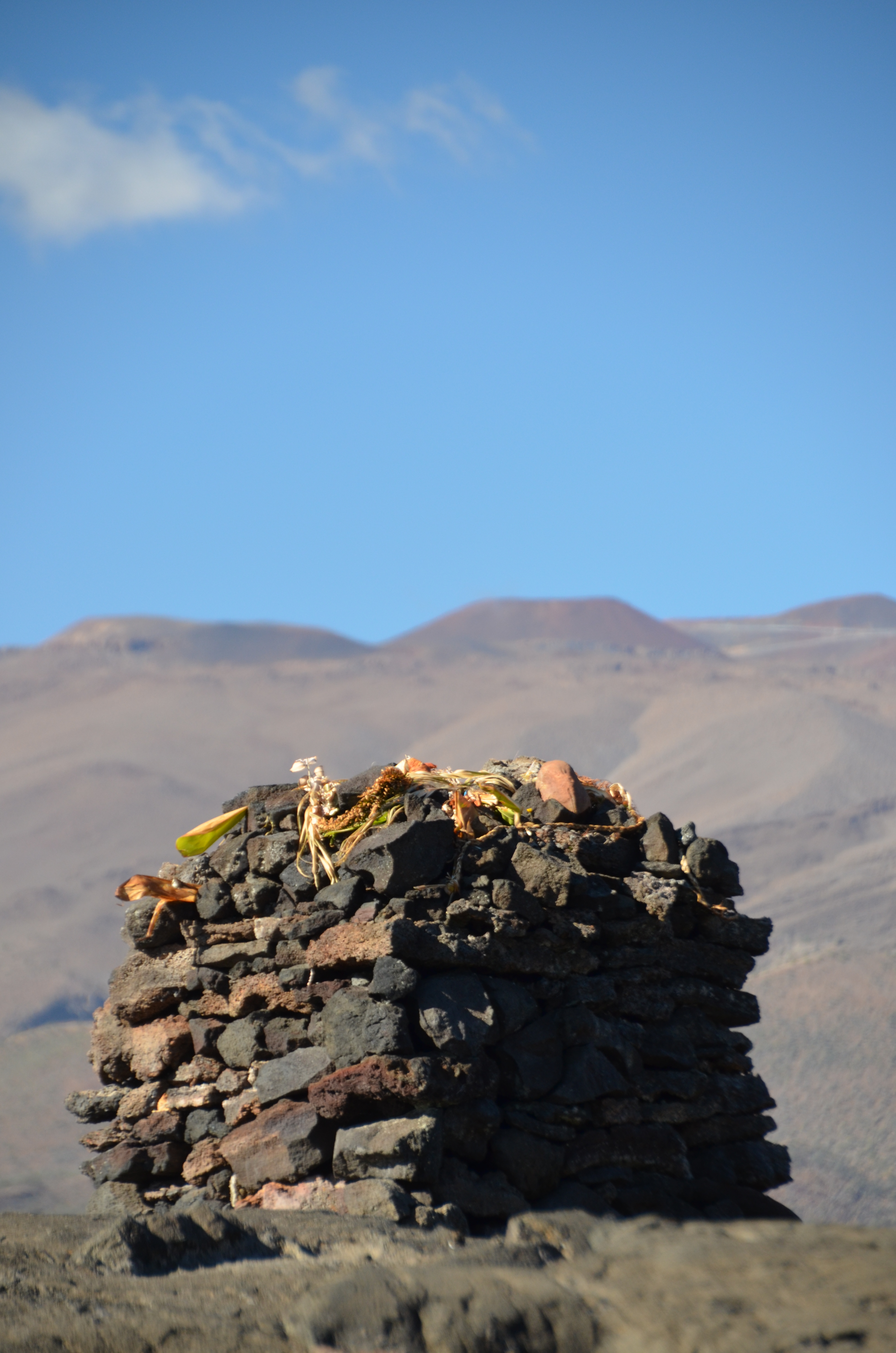 Cairn of rocks near the parking lot for Pu'u Hululu, marking the boundary of an ahupuaa.